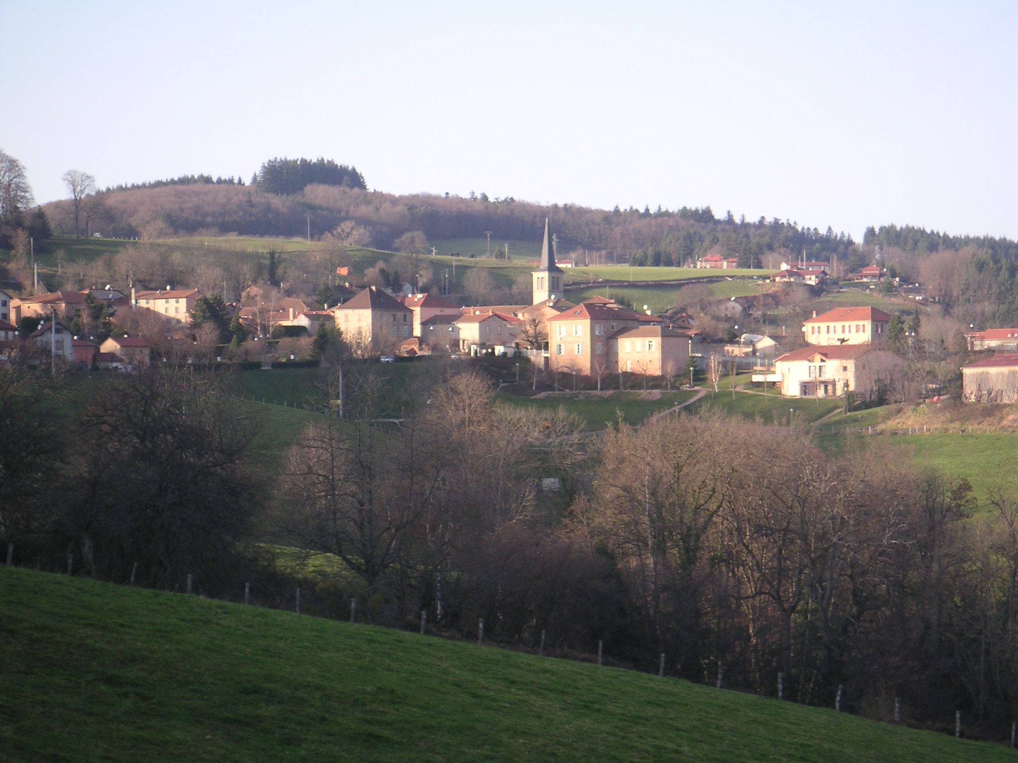 Sevelinges, seen from the south, fall